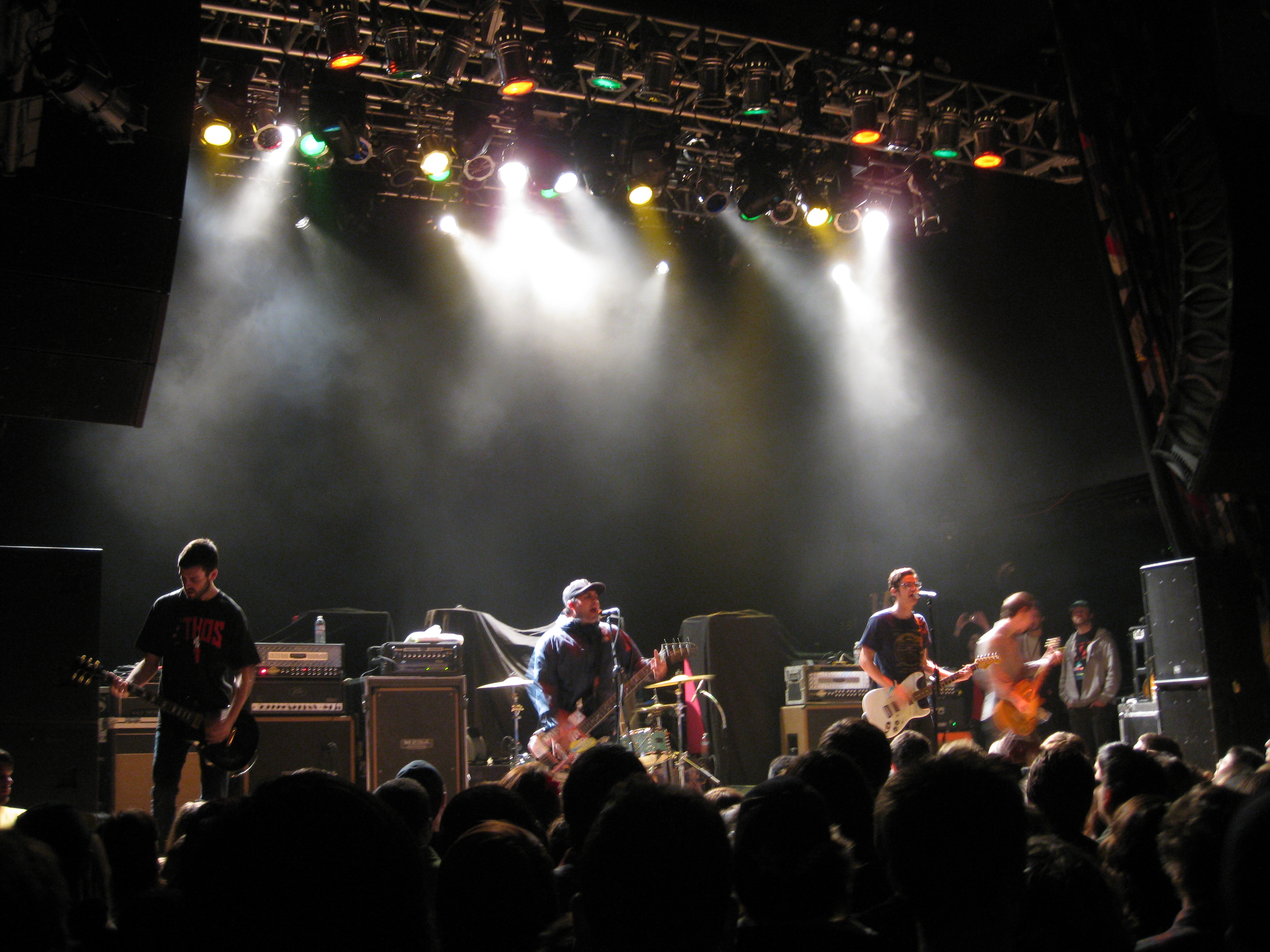 Man Overboard performing November 20, 2011 at the House of Blues in San Diego, California, as part of the "Pop Punk's Not Dead" tour. Left to right: guitarist Wayne Wildrick, singer/bassist Nik Bruzzese, singer/guitarist Zac Eisenstein, and guitarist Justin Collier. Drummer Mike Hrycenko is not visible behind Bruzzese.